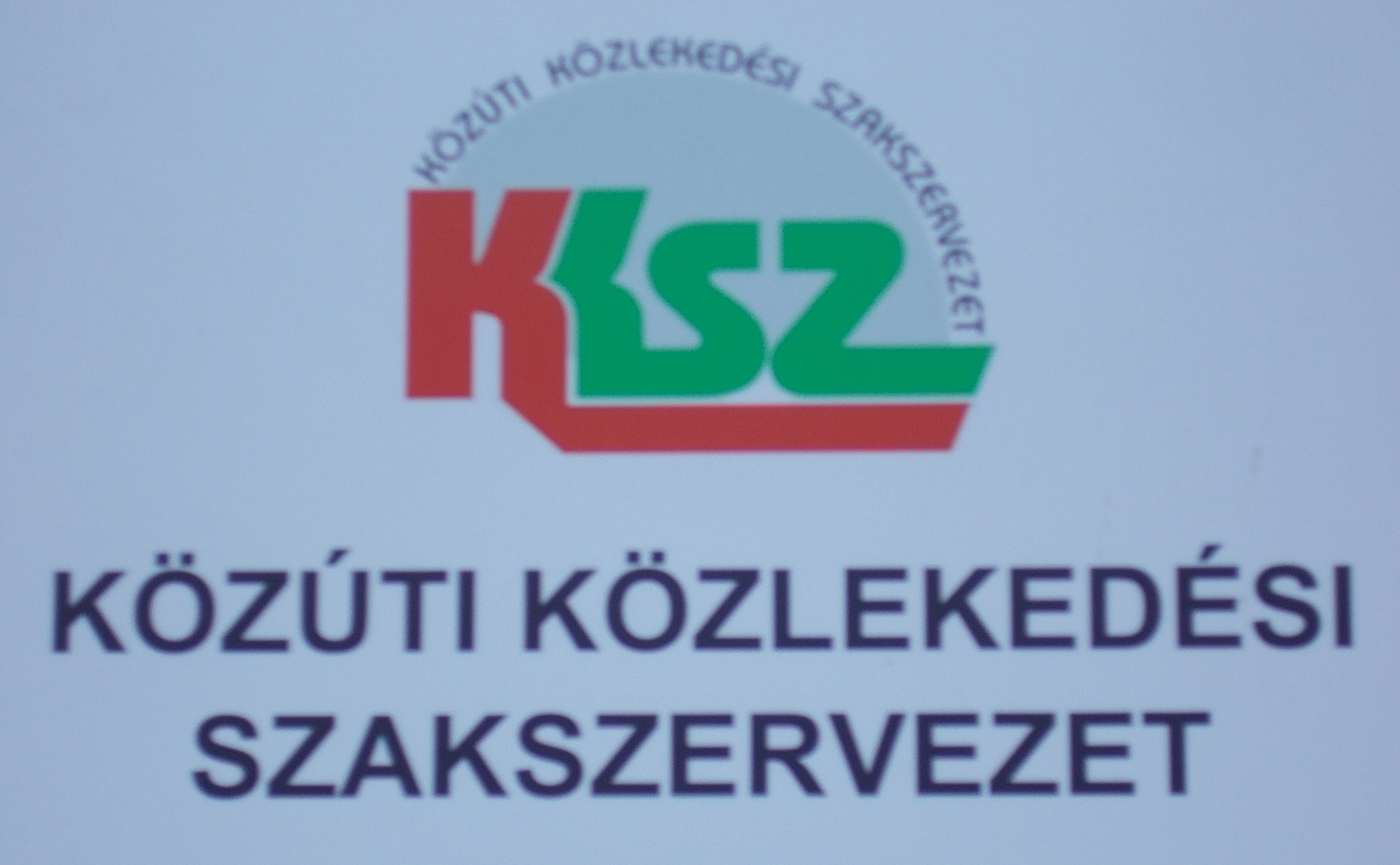 Sign at an office building. Road Transport Trade Union. - 3 II. János Pál pápa Square, Népszínház neighbourhood, Budapest District VIII.